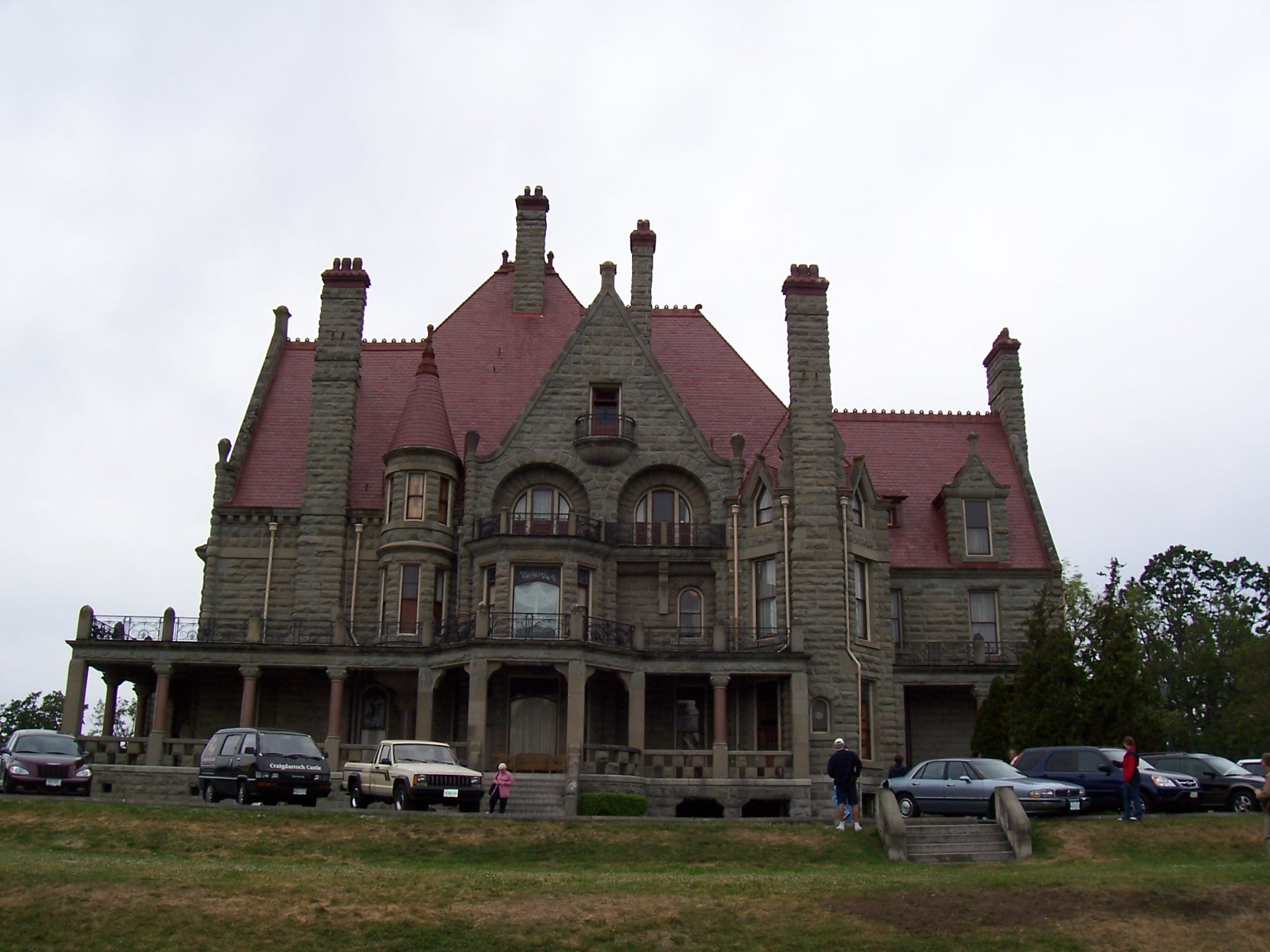 Craigdarroch Castle in Victoria, British Columbia, Canada. Originally uploaded at enwiki by me on 2006-06-05.